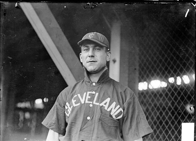 Half-length portrait of baseball player, (Napoleon) Nap Lajoie, second baseman for the Cleveland Naps, American League, standing in the dugout at South Side Park which was located at West 37th Street, South Princeton Avenue, West Pershing Road (formerly West 39th Street), and South Wentworth Avenue in the Armour Square community area of Chicago, Illinois.